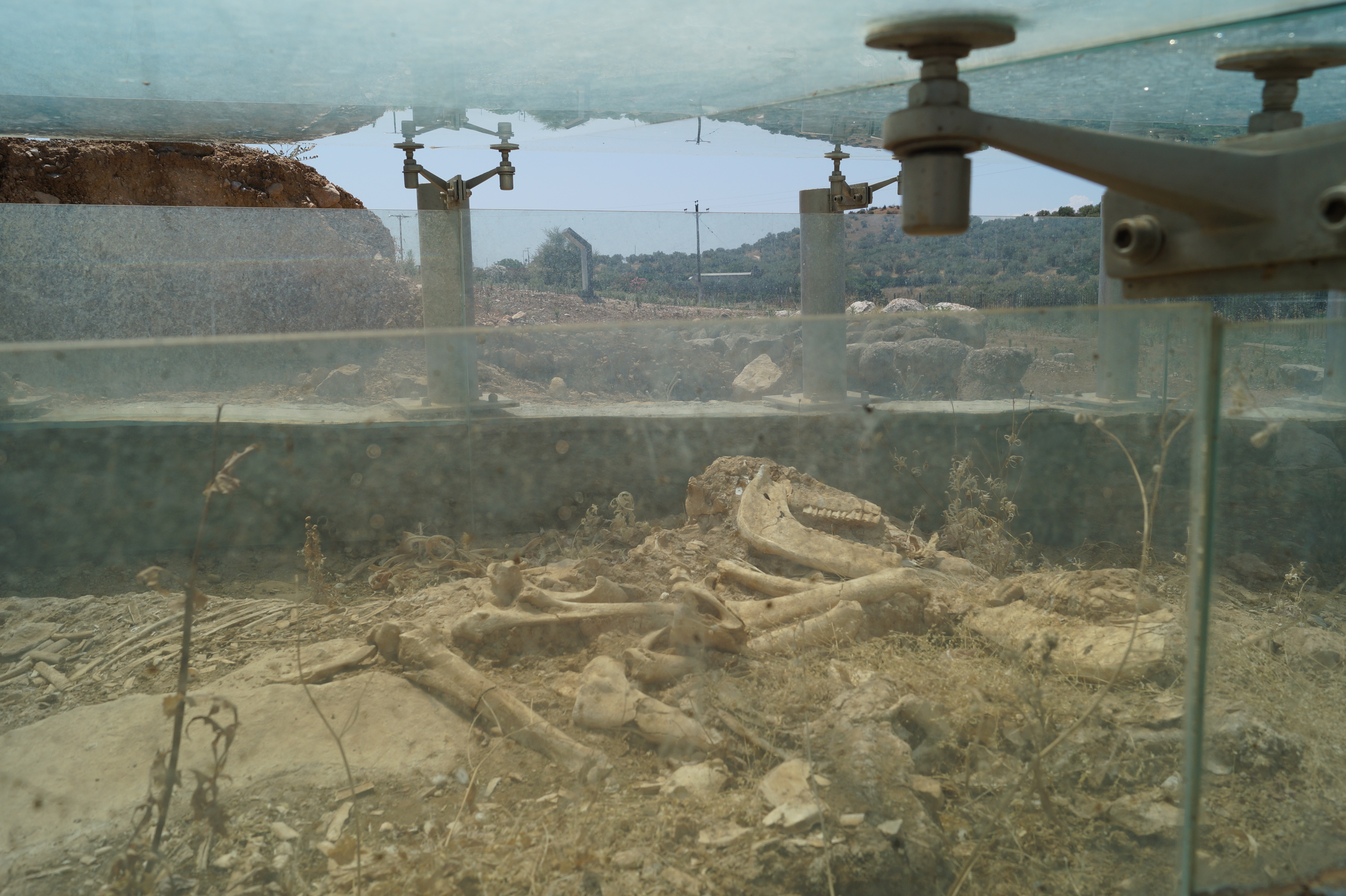 Dendra, Argolis, Greece: Horse burials of the mycenaean cementary.